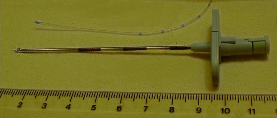 16G Tuohy needle (Portex) and epidural catheter, markings at 1cm